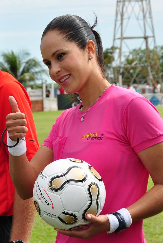 Referee Ana Paula Oliveira at the charity event "Futebol do Bem" in Votuporanga (SP), 2010-12-10